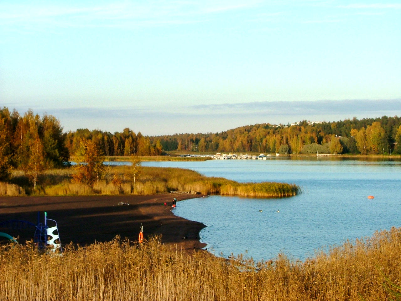 Autumnal view on Vartionkylänlahti bay in Eastern Helsinki. Neighbourhood of Puotila on the left, Rastila on the right. October 2004.